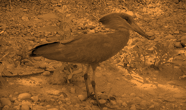 Hamerkop (Scopus umbretta), on the banks of the great river